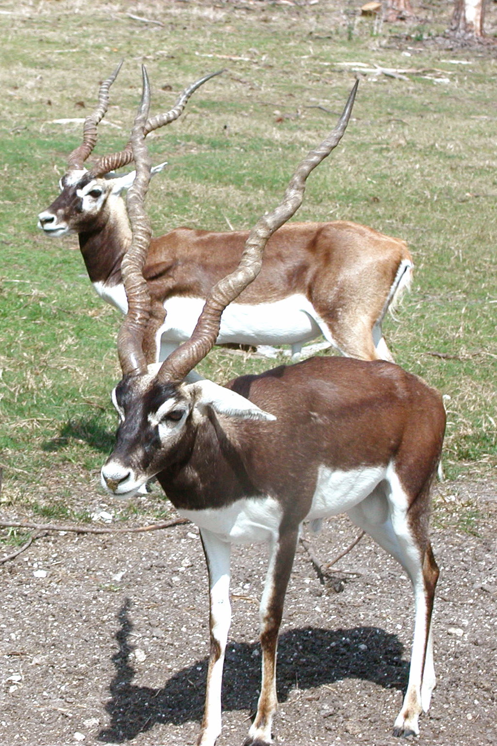 Blackbuck Antelope (Antilope cervicapra)